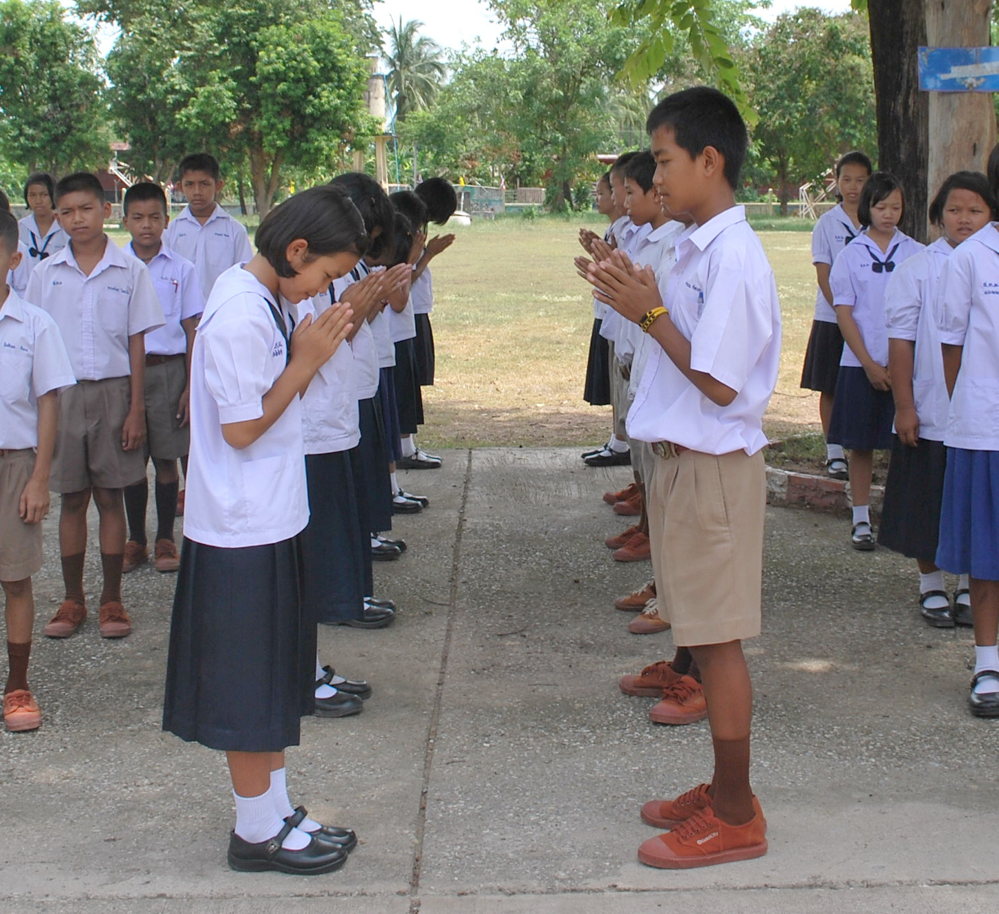 student in Ban Hat Suea Ten School in Khung Taphao subdistrict, Mueang Uttaradit, Uttaradit Province, Thailand.